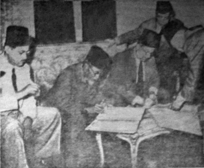 Agus Salim and an Egyptian minister signing a friendship accord in Jakarta